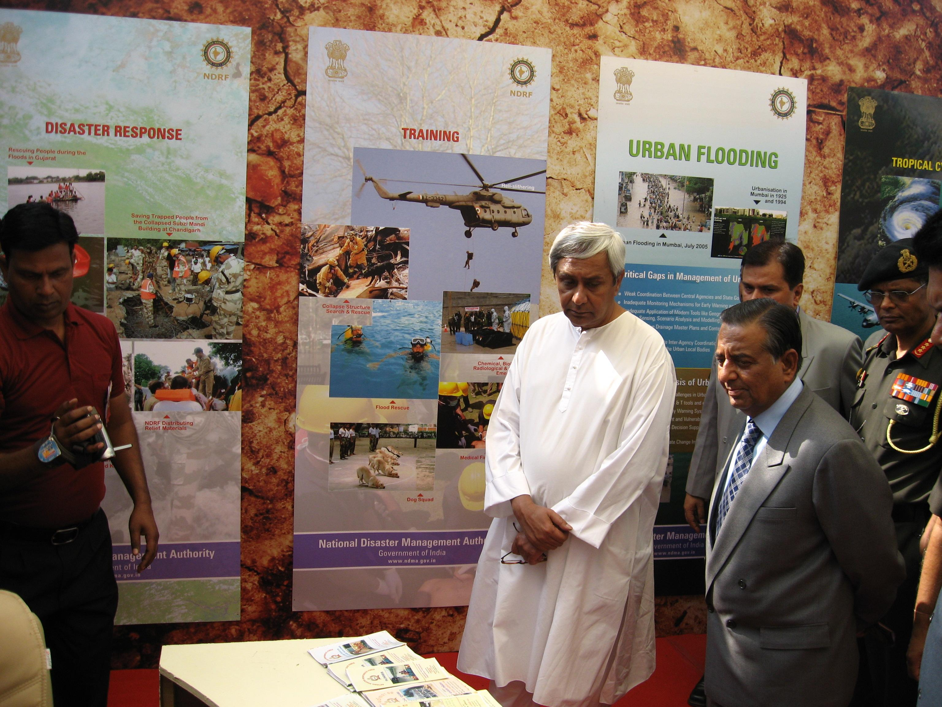 Exhibition at Orissa